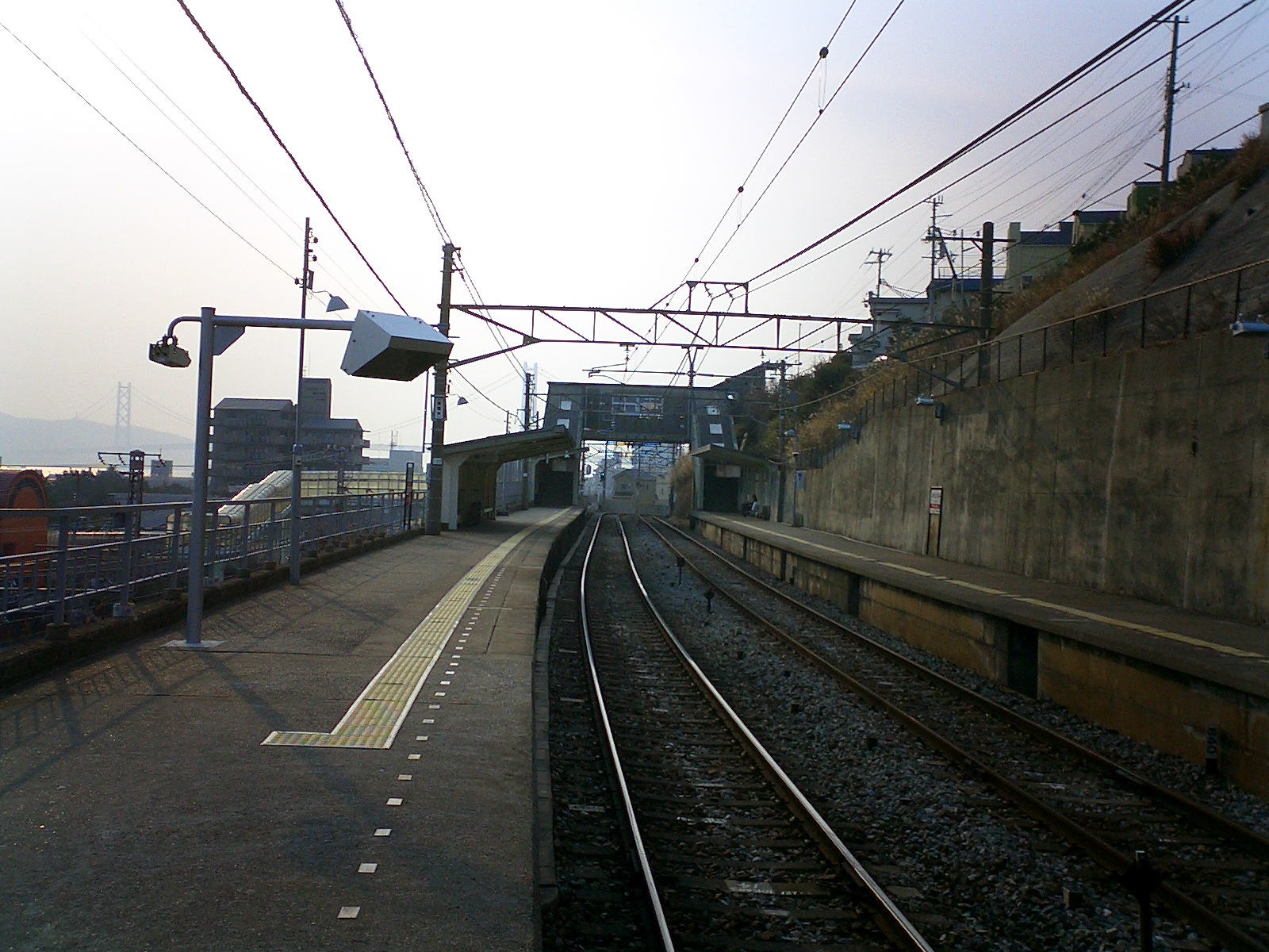 Sanyo Electric Railway Main Line Higashi-Tarumi Station Platform